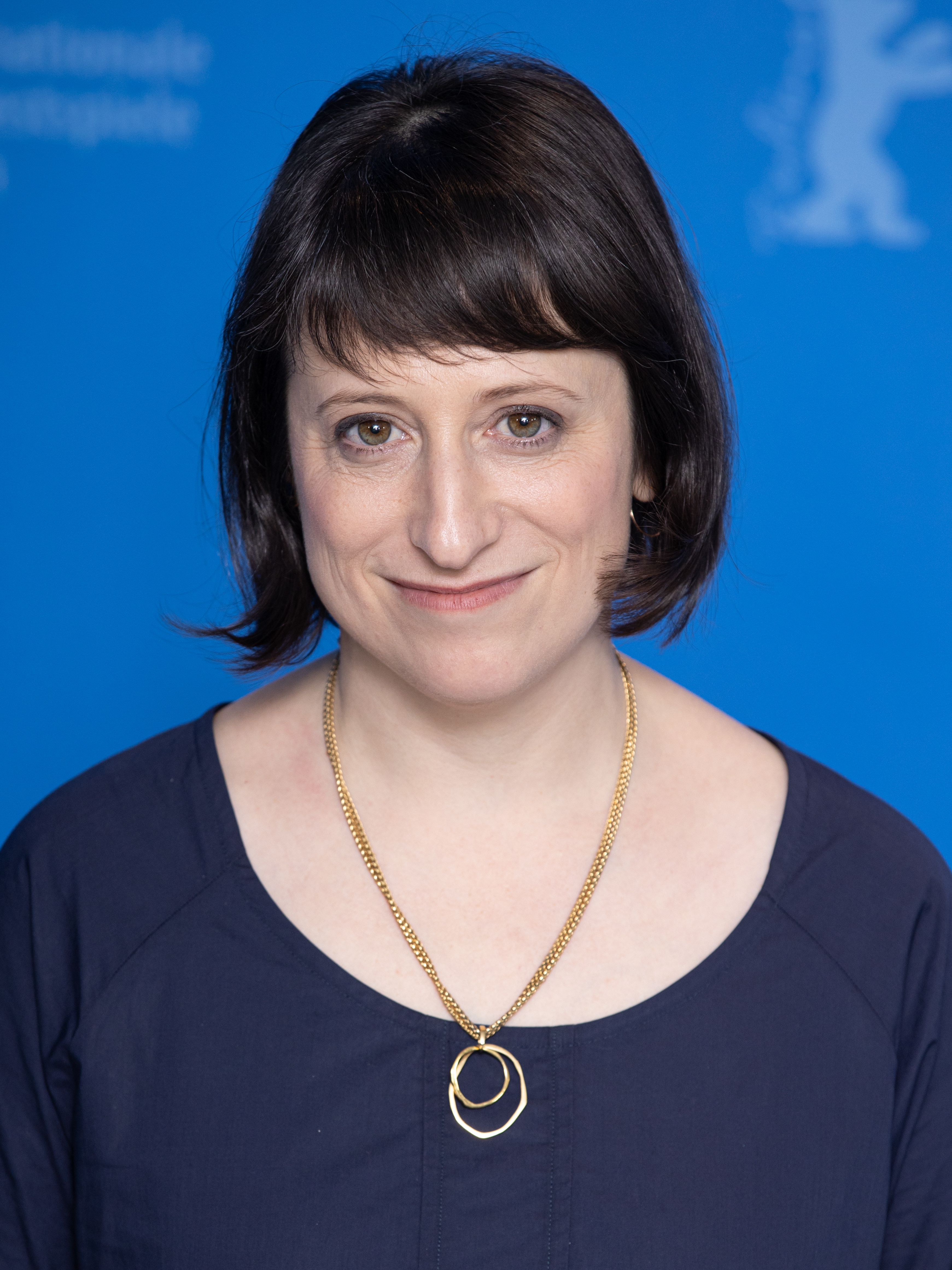 Film director Eliza Hittman at the Berlinale 2020